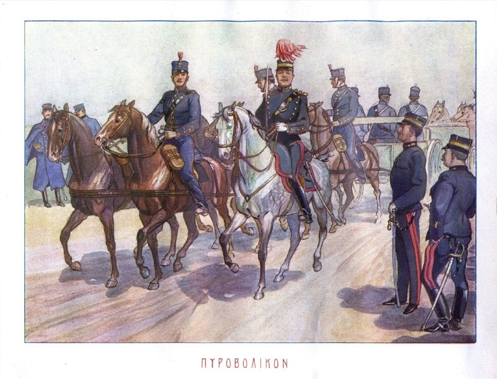 Greek artillery in field & parade uniforms, ca. 1890